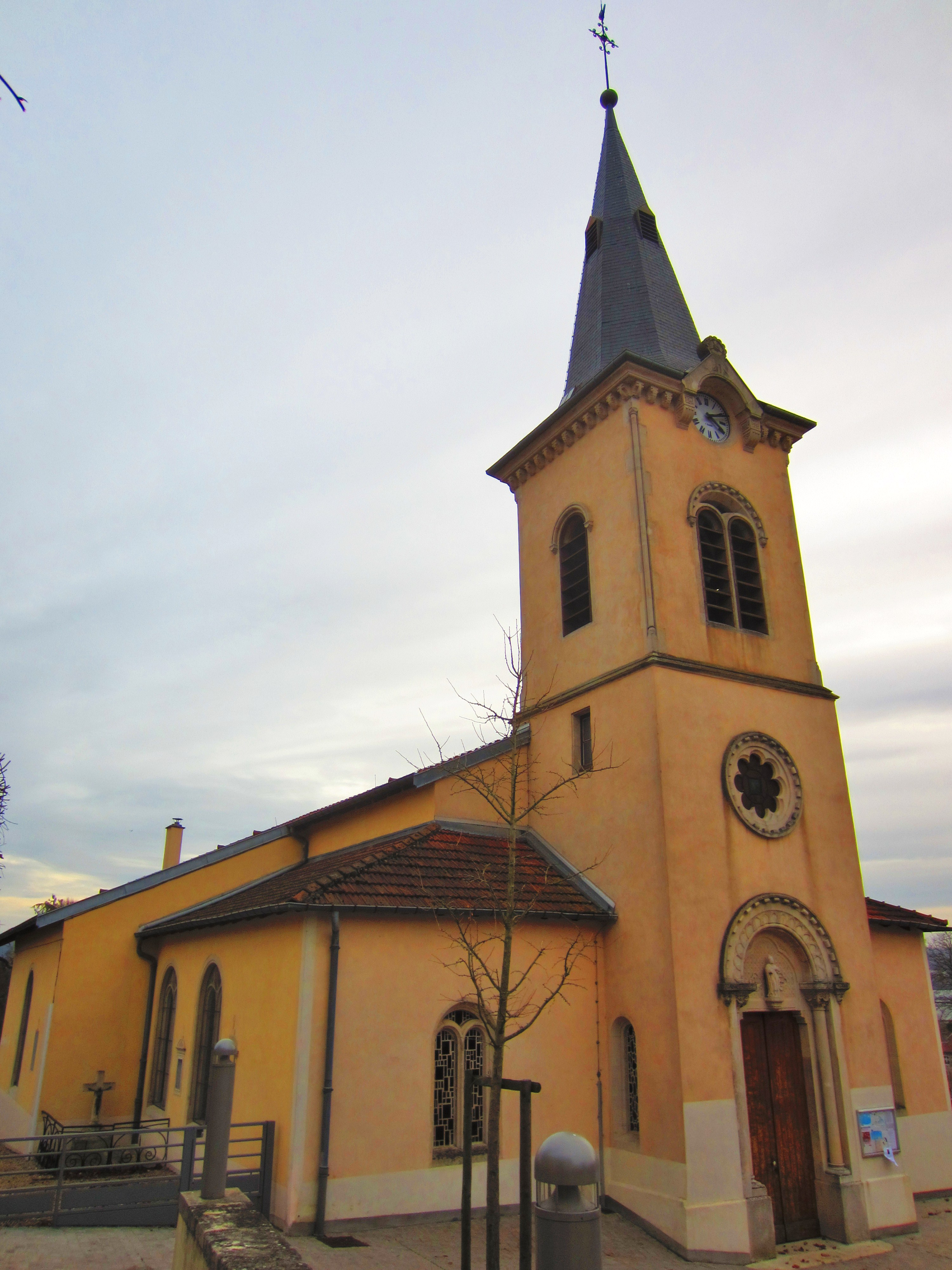 Bouxieres Dames church